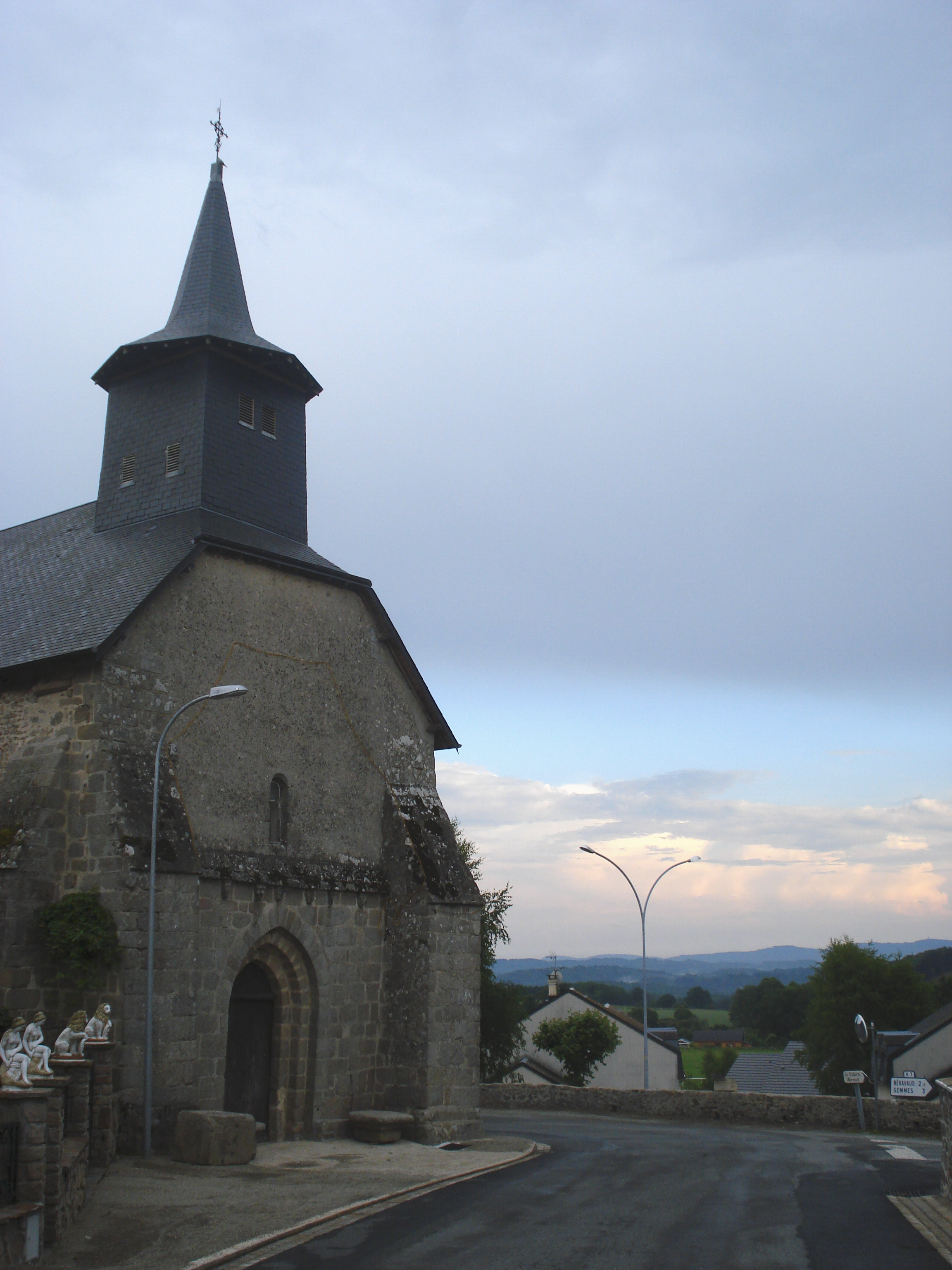 Saint-Priest-la-Feuille (Creuse, Fr), church and view